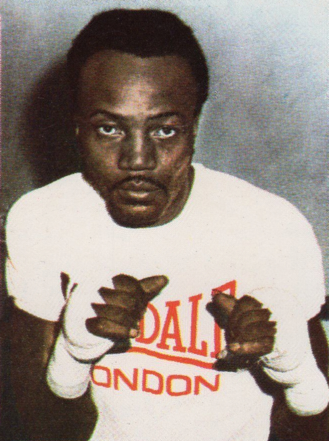 CAMPIONI DELLO SPORT ANNO 1973/74 - 294 BOXE BOB FOSTER